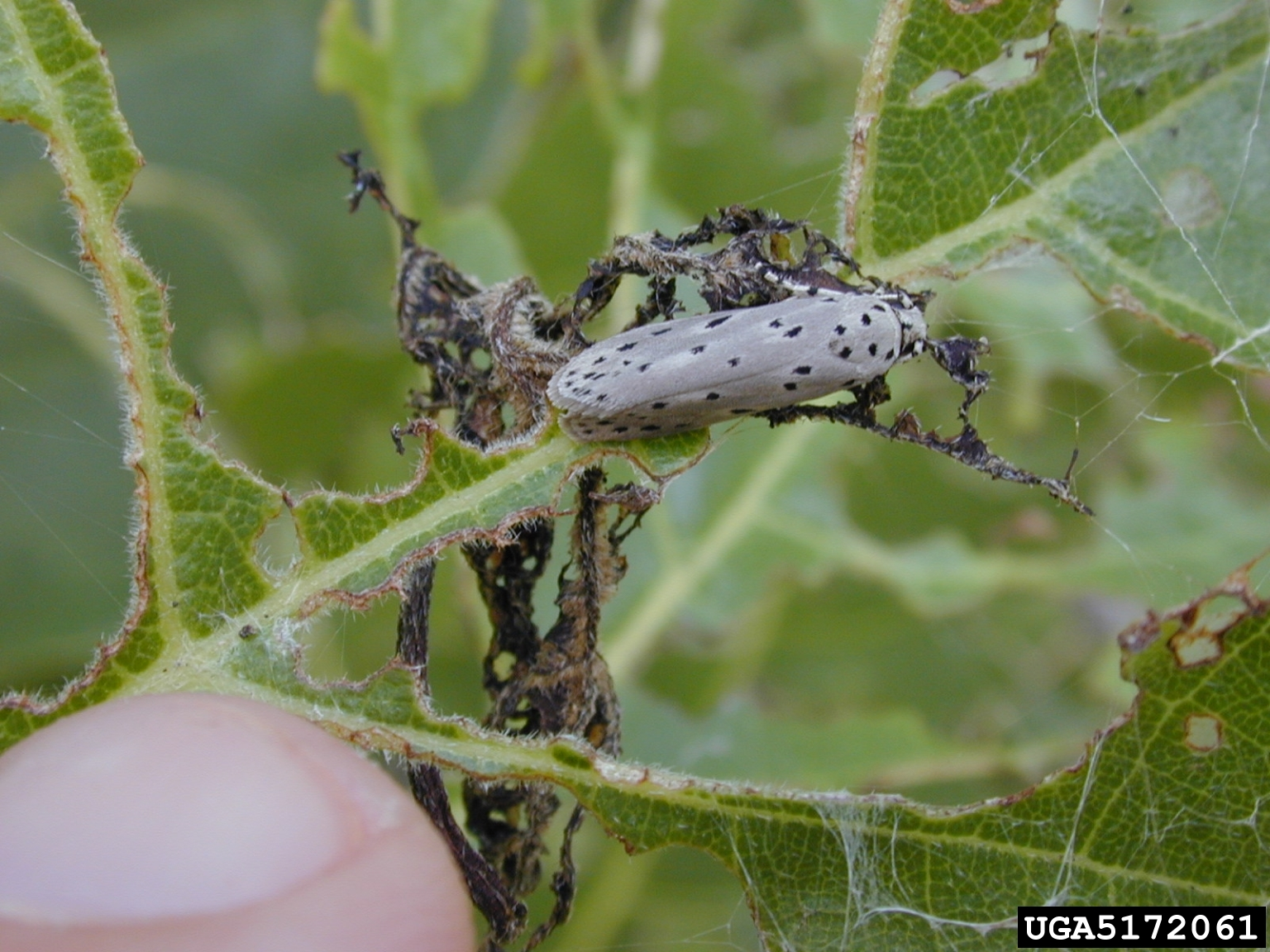 Ethmia nigroapicella